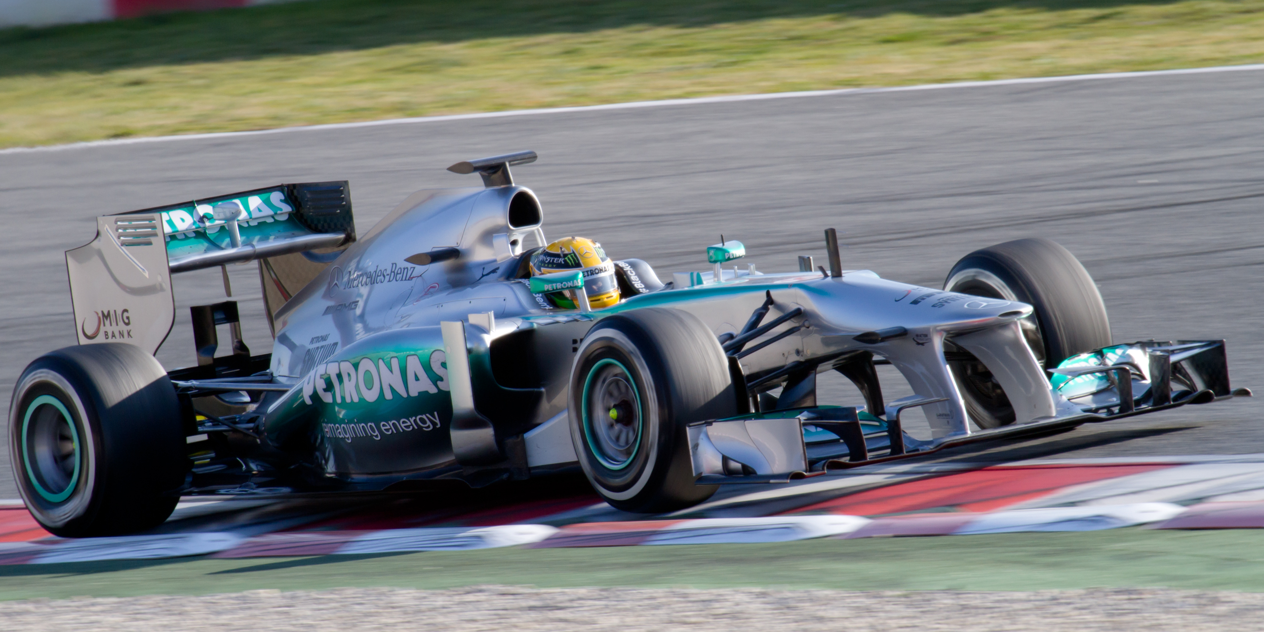 Formula One 2013 Catalonia test (19-22 February): Lewis Hamilton (Mercedes GP)